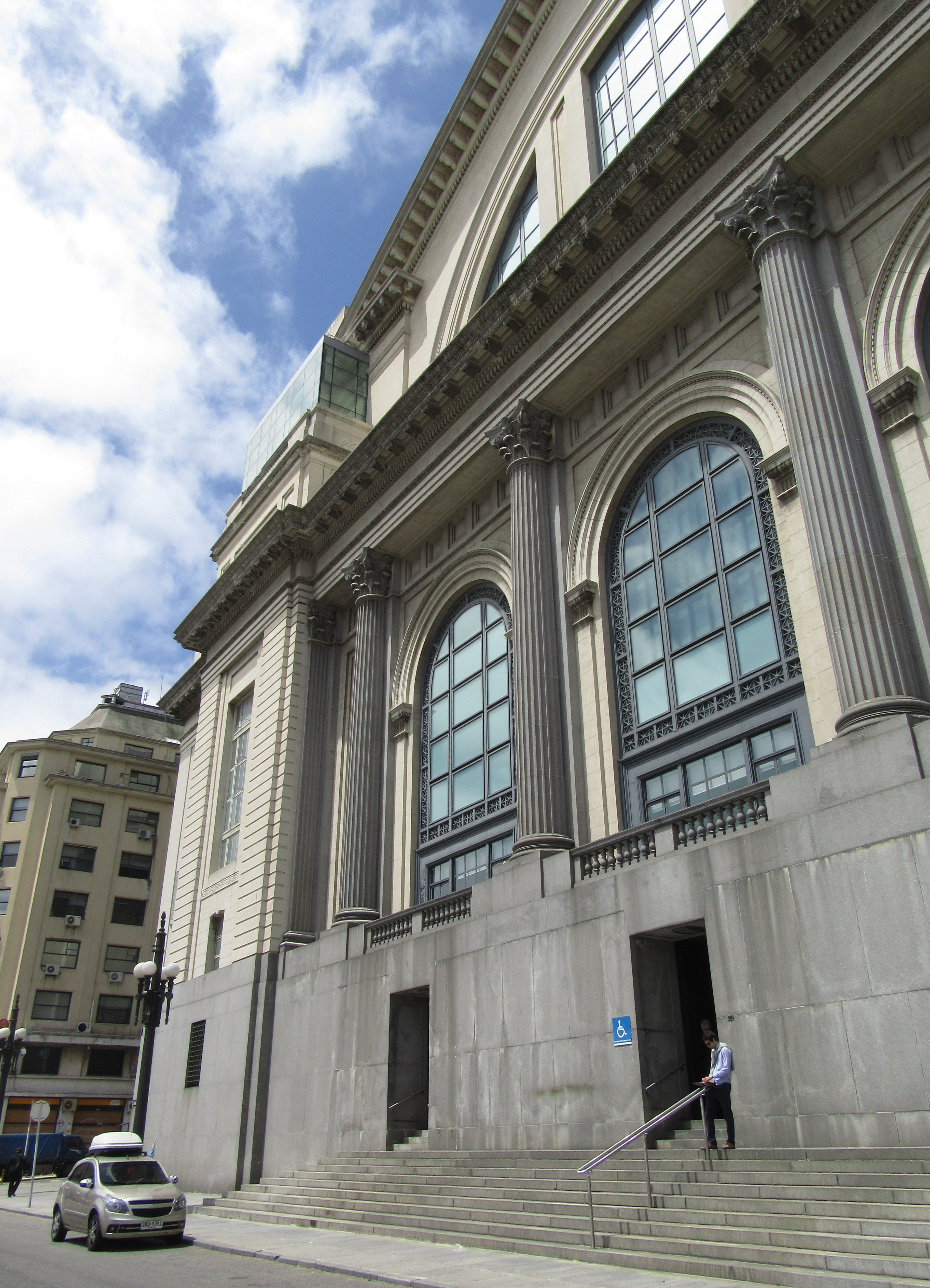 Montevideo